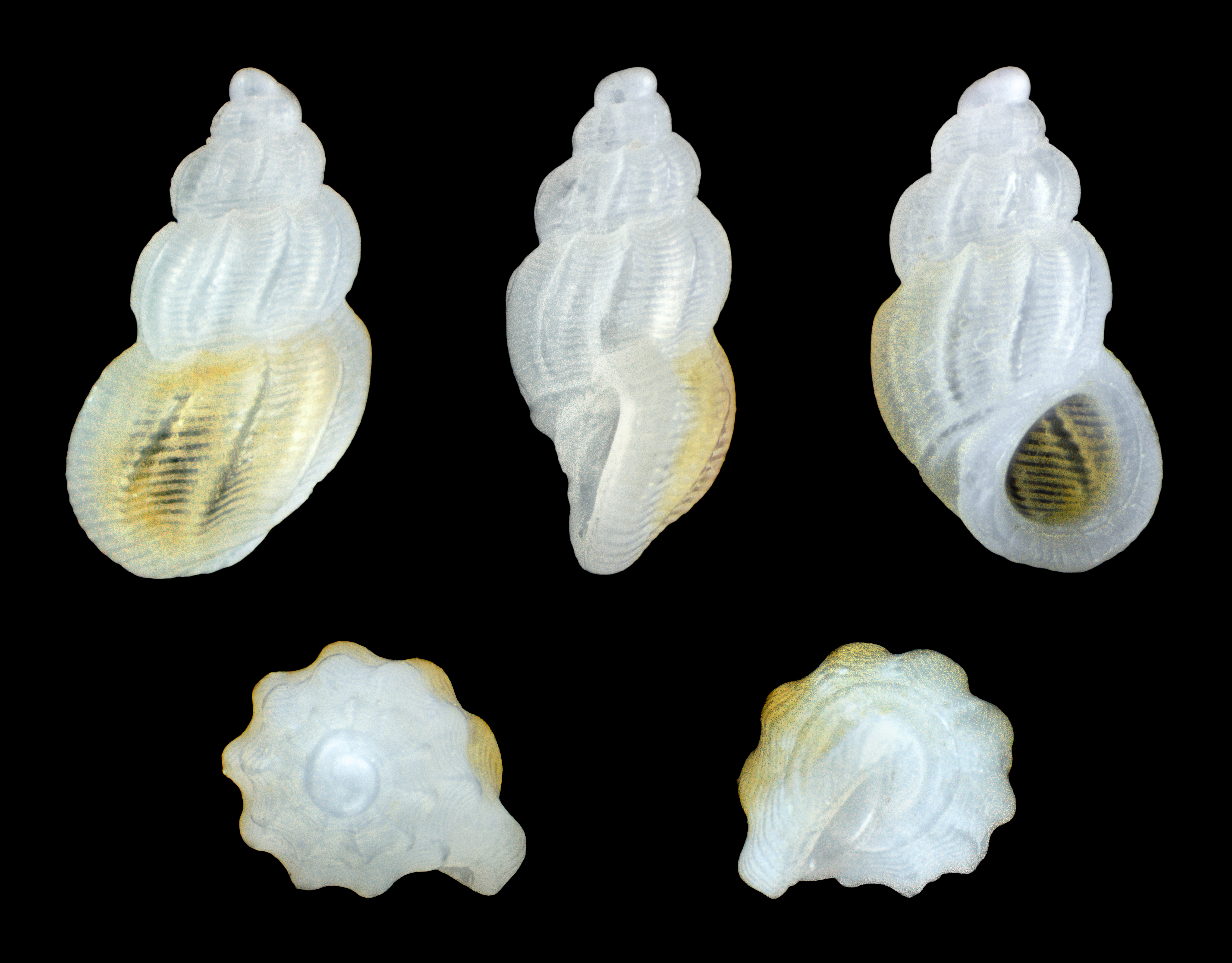 Manzonia wilmae Moolenbeek & Faber, 1987, two-coloured form; Length 0.20 cm; Originating from the coast at the Faro de Punta Jandía, Jandía, Fuerteventura, Canary Islands, Spain; 28°4′2.22″N 14°30′19.32″W / 28.0672833°N 14.5053667°W. Shell of own collection, therefore not geocoded.